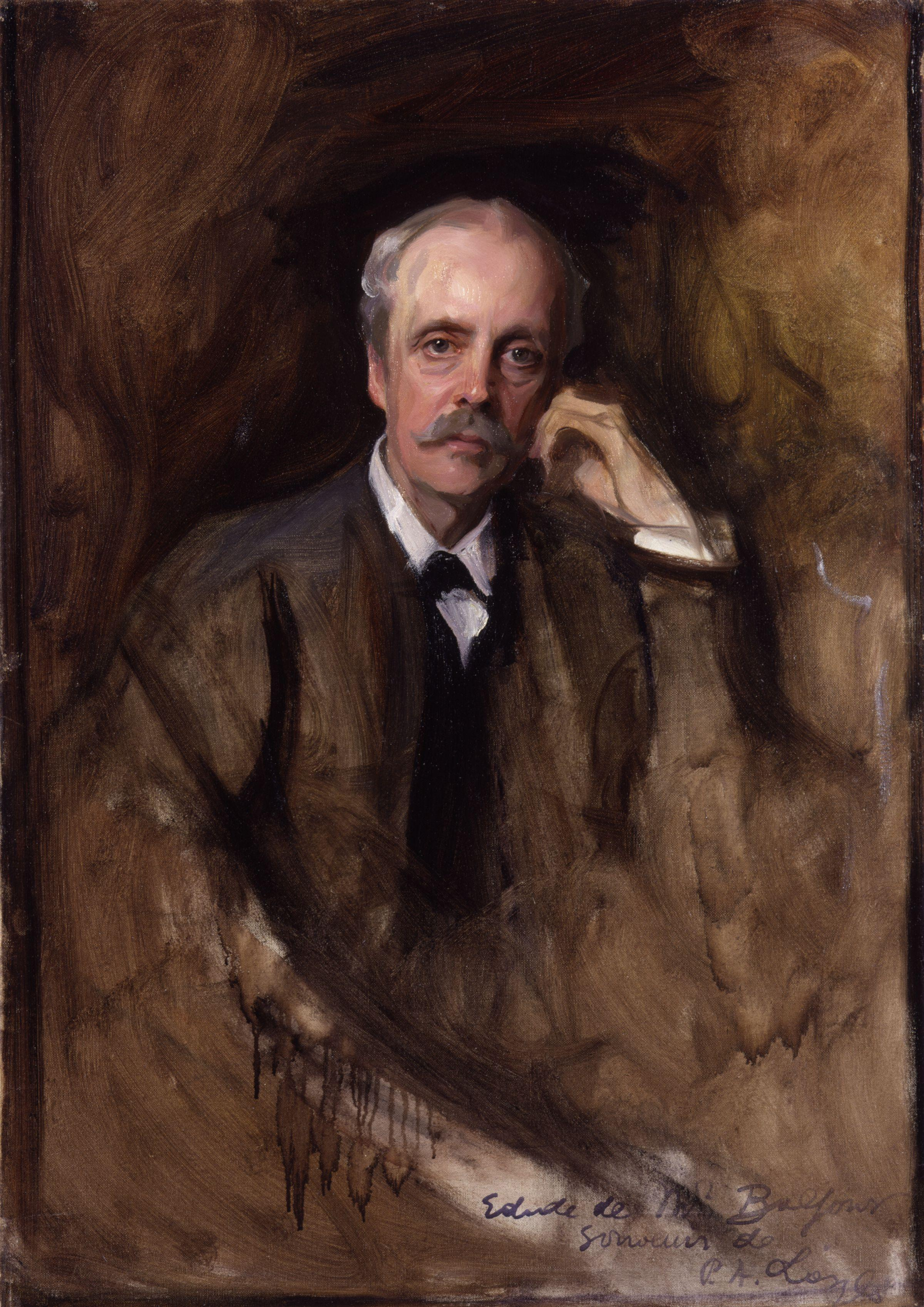 Arthur James Balfour, 1st Earl of Balfour, by Philip Alexius de László (died 1937), given to the National Portrait Gallery, London in 1931. All images in this batch have been confirmed as author died before 1939 according to the official death date listed by the NPG.